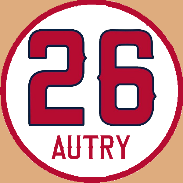 Illustration of Gene Autry's Retired Angels Number